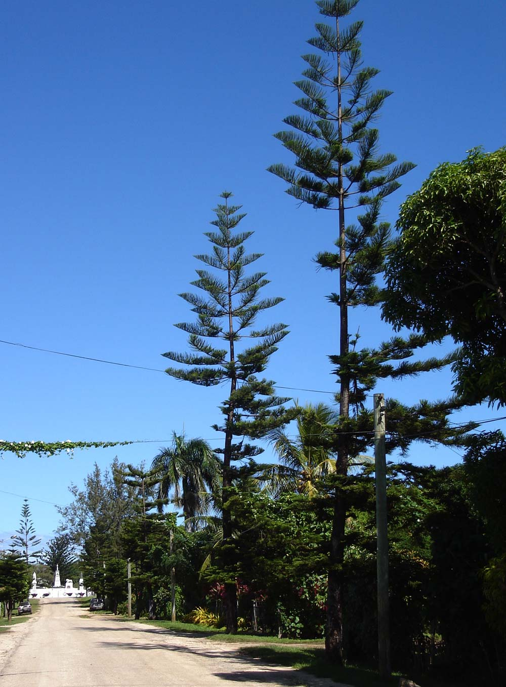 the King's road (hala tuʻi) or Pine's road (hala paini) from the palace to the royal cemetary is lined with Norfolk pines. Nukuʻalofa, Tonga.